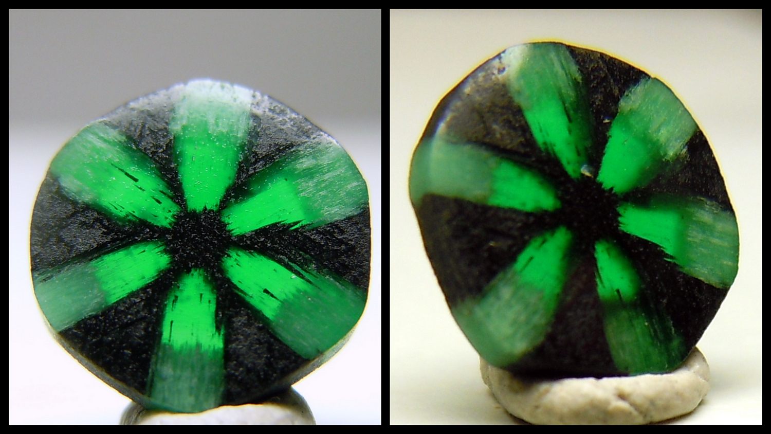 a trapiche emerald from Muzo Mine, Colombia